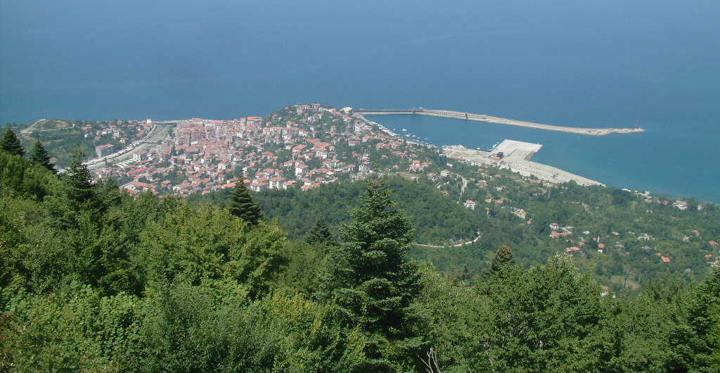 A view of İnebolu Port from Geriş Hill.